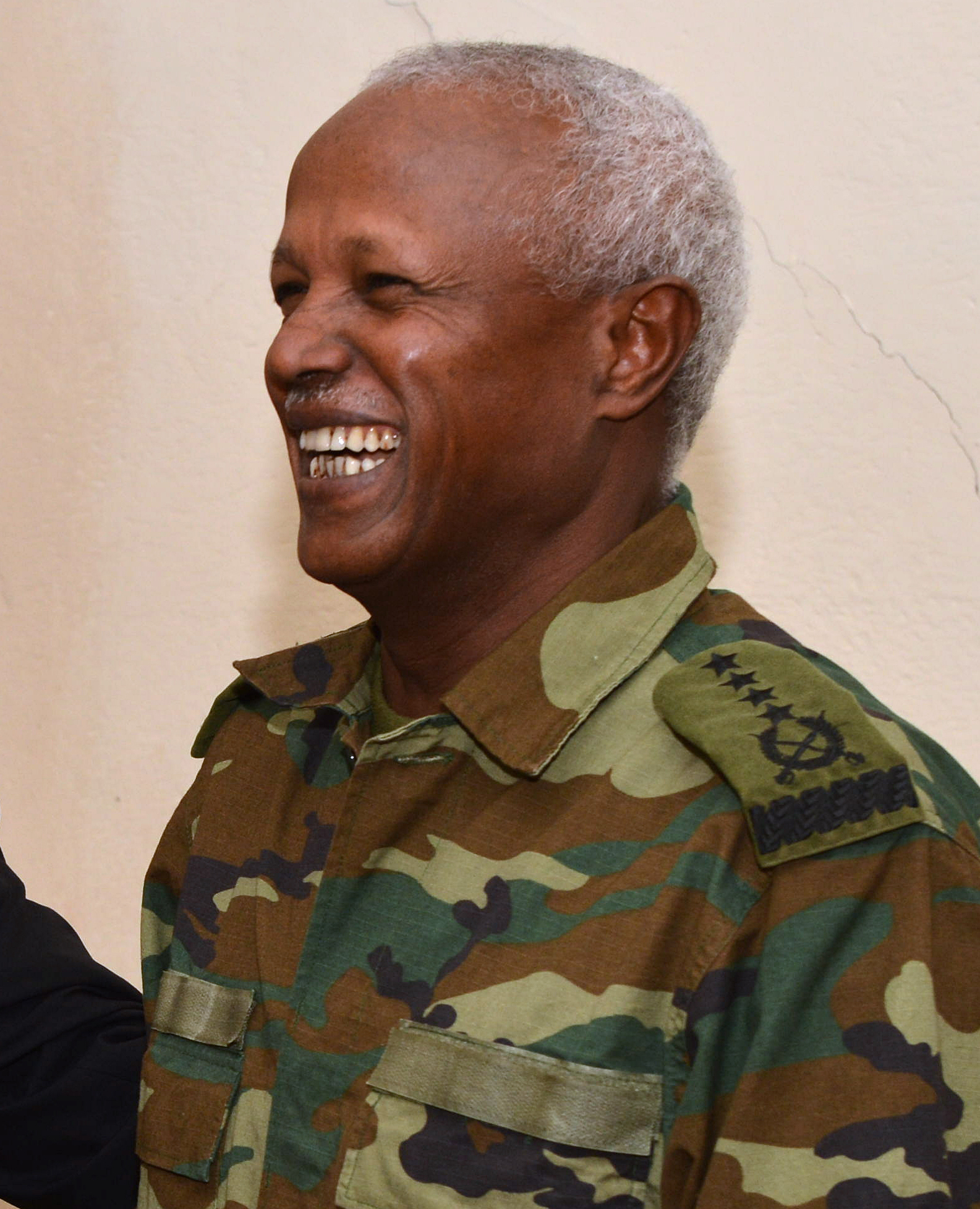 Deputy Secretary of Defense Ashton B. Carter, left, meets with Gen. Samora Yunis at the Ethiopian National Defense Force Headquarters in Addis Ababa, Ethiopia, on July 24, 2013. Carter is visiting Ethiopia to meet with senior government and military leaders to affirm the growing security partnership between the United States and the East African nation.